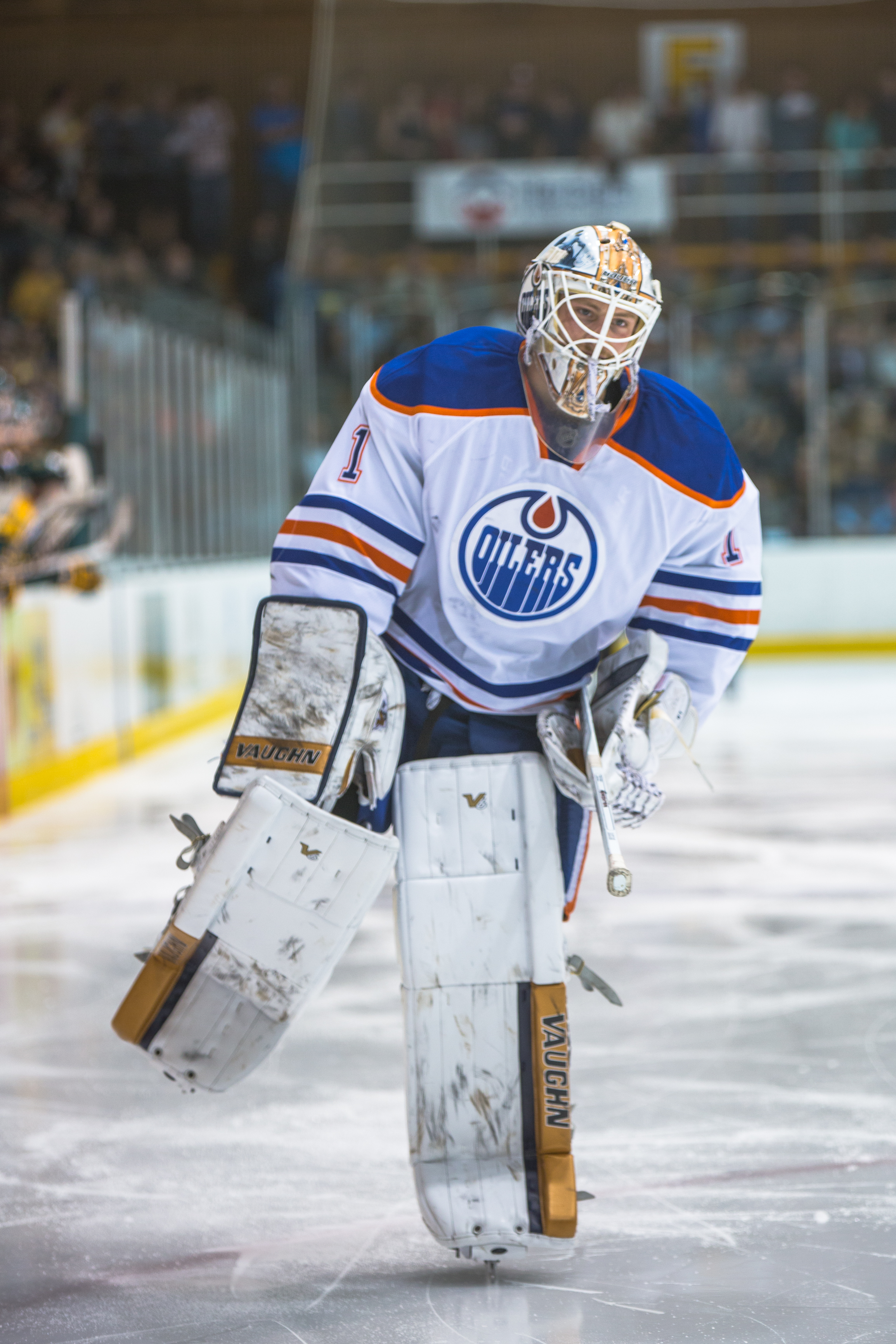 Edmonton Oilers Rookies vs UofA Golden Bears